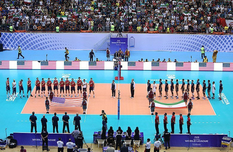 Iran men's national volleyball team versus the United States men's national volleyball team in Tehran during 2015 FIVB Volleyball World League. Iran defeated the United States in straight sets.